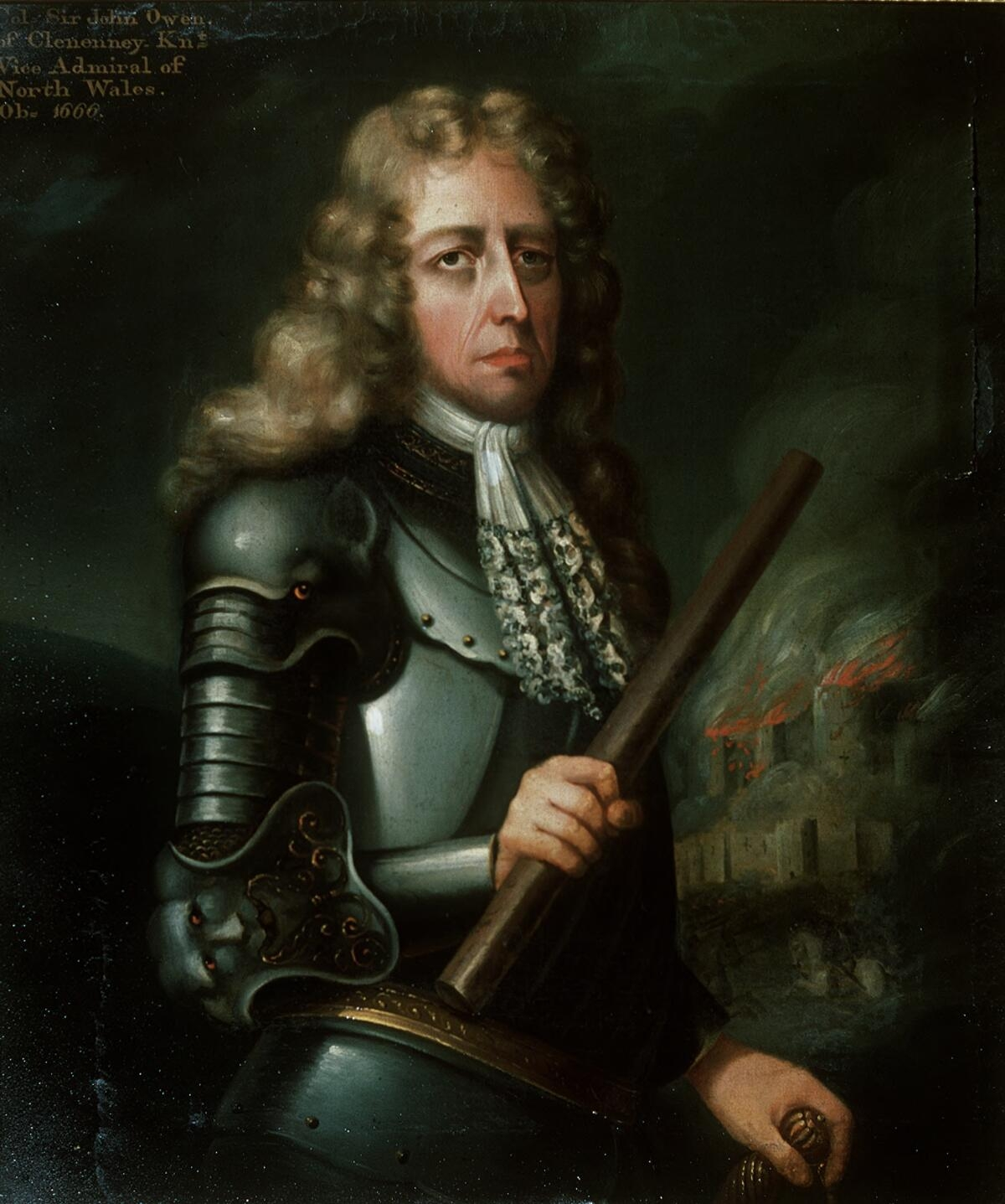 A painting from the Framed Works of Art collection at the National Library of wales.